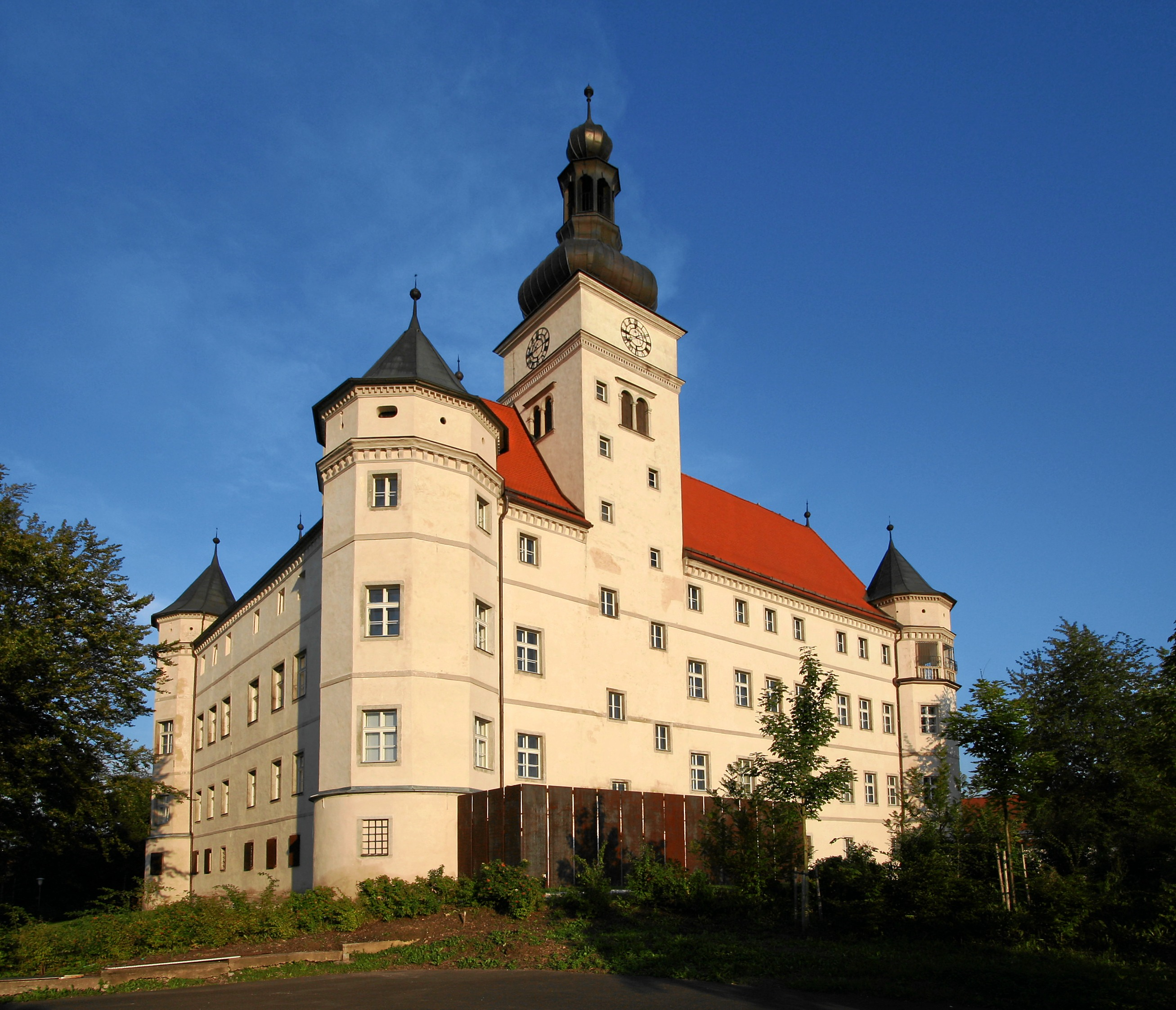 Schloss Hartheim, seen from the west